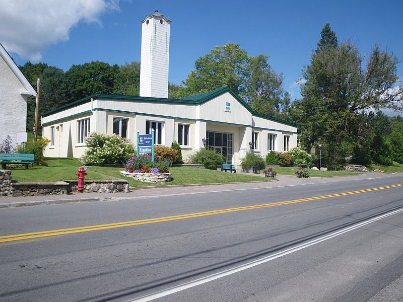 Town hall, Morin-Heights, Québec, Canada